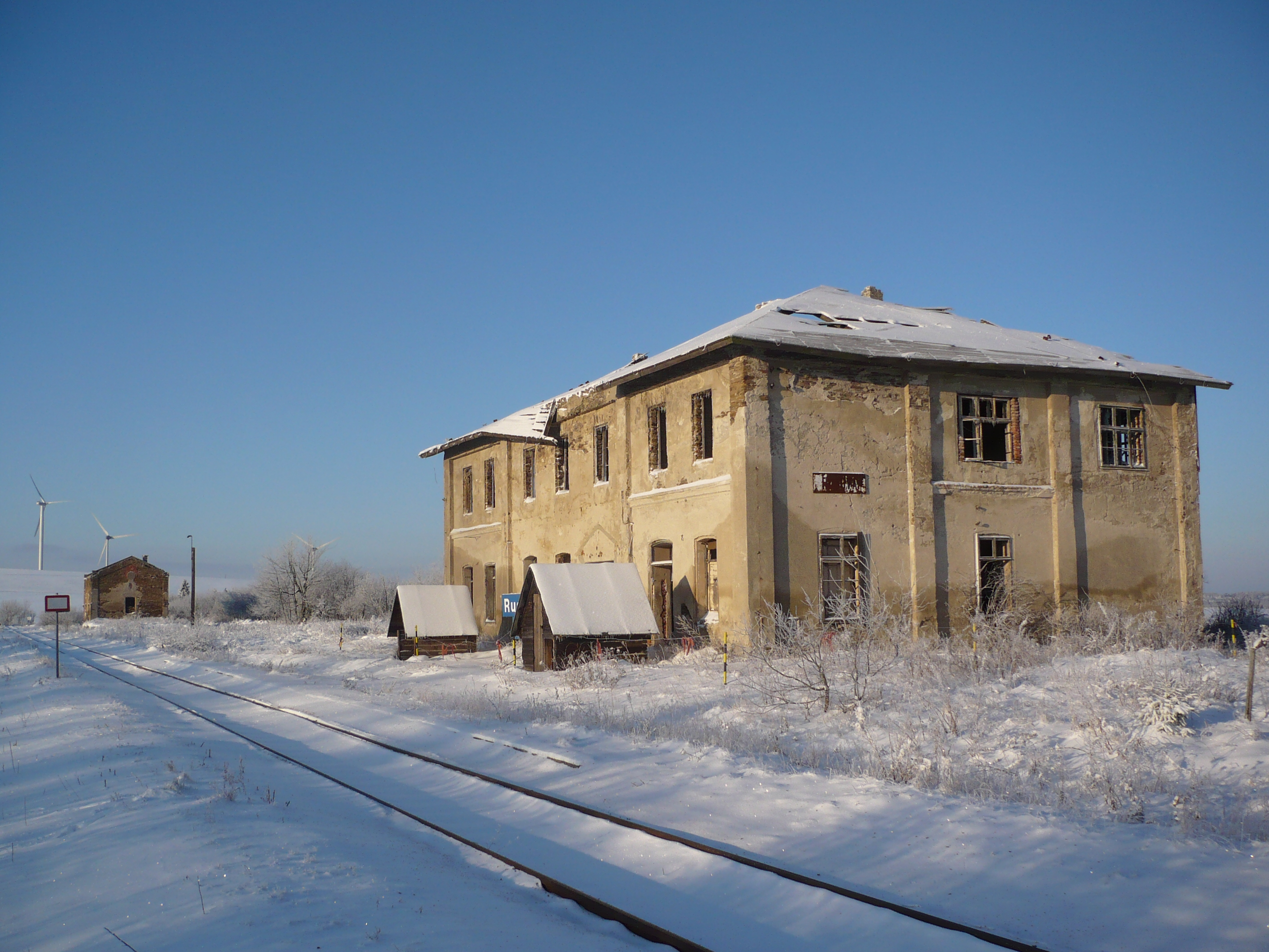 Railway station Rusová, Ore Mountains. The owner of the building was state organisation Správa železniční dopravní cesty (Kryštofovy Hamry-Rusová č.p. 268 on land plot st. 367). In 2012 SŽDC decided to demolish the building.